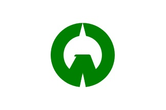 Flag of Iruma Saitama